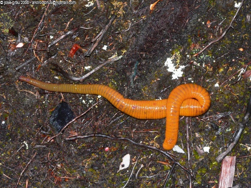 This giant carnivorous leech, of the genus Americobdella native to southern Chile, feeds exclusively on earthworms which they suck in whole. Some specimens of this relict leech measure up to 30 cm. Its massive size and primitive anatomy suggest it represents an ancestral lineage of the Arhynchobdellid groups[1].]